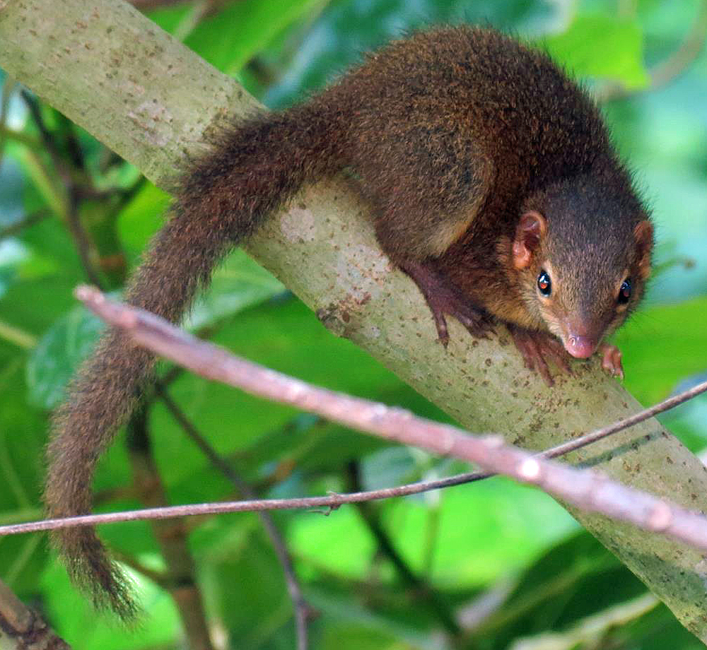 Horsfield's treeshrew ; location : Ujung river, Kedewatan, Bali, Indonesia ; date : 2013.03.13